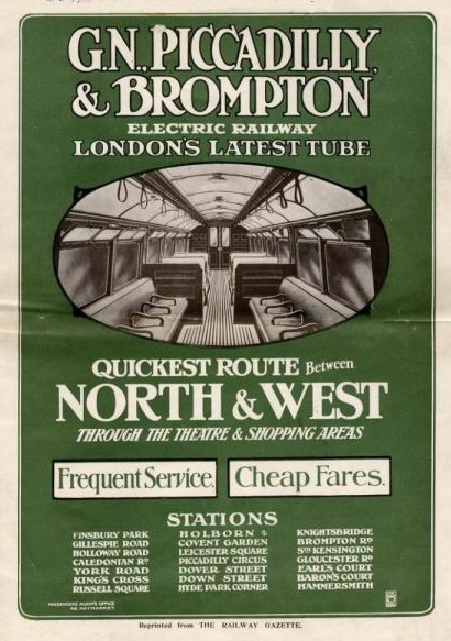 Cover page from a pamphlet for the Great Northern, Piccadilly and Brompton Railway, which opened on 15 December, 1906. Cropped and cleaned-up by the uploader.